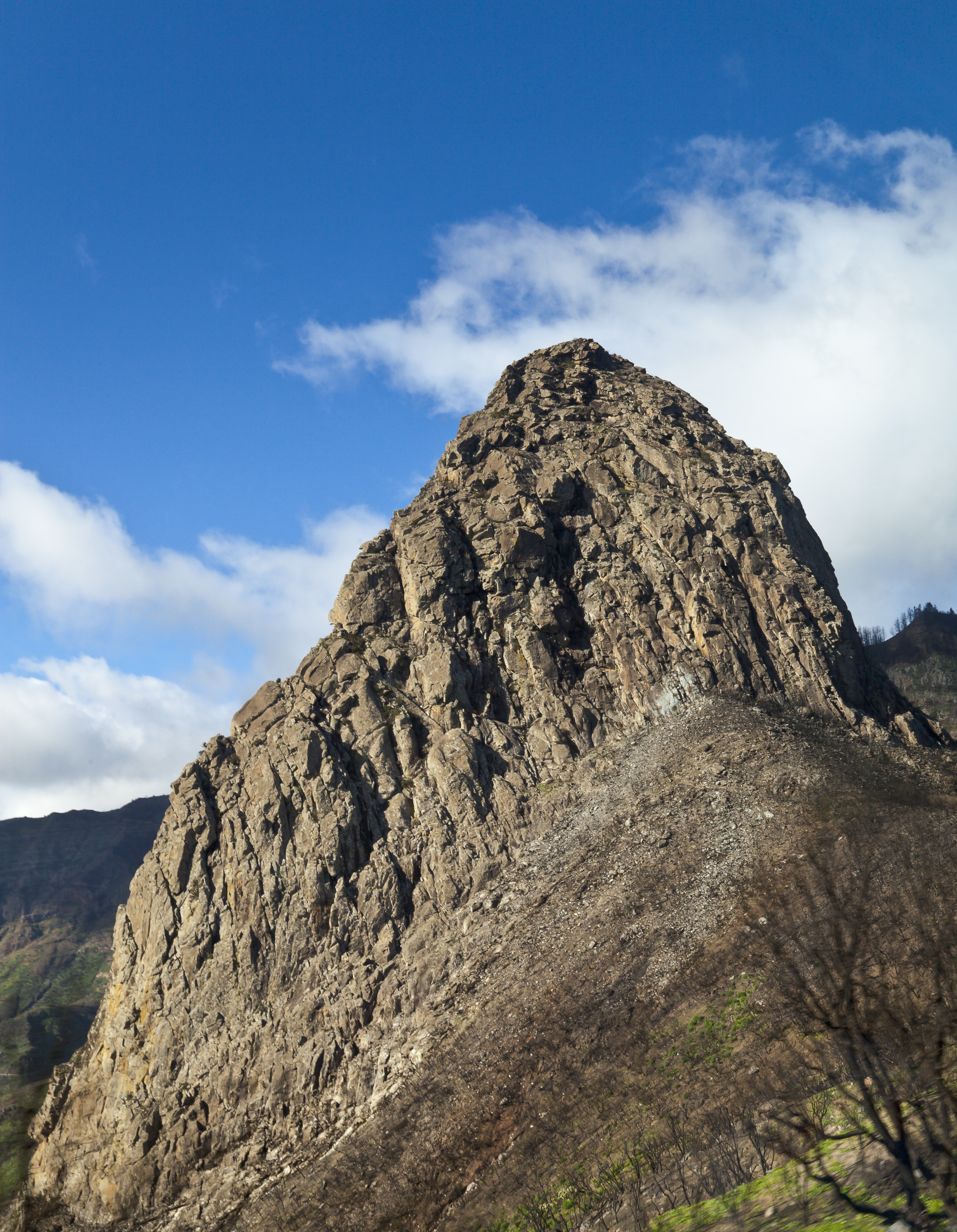 Roque Agando, San Sebastián de la Gomera, La Gomera, Spain